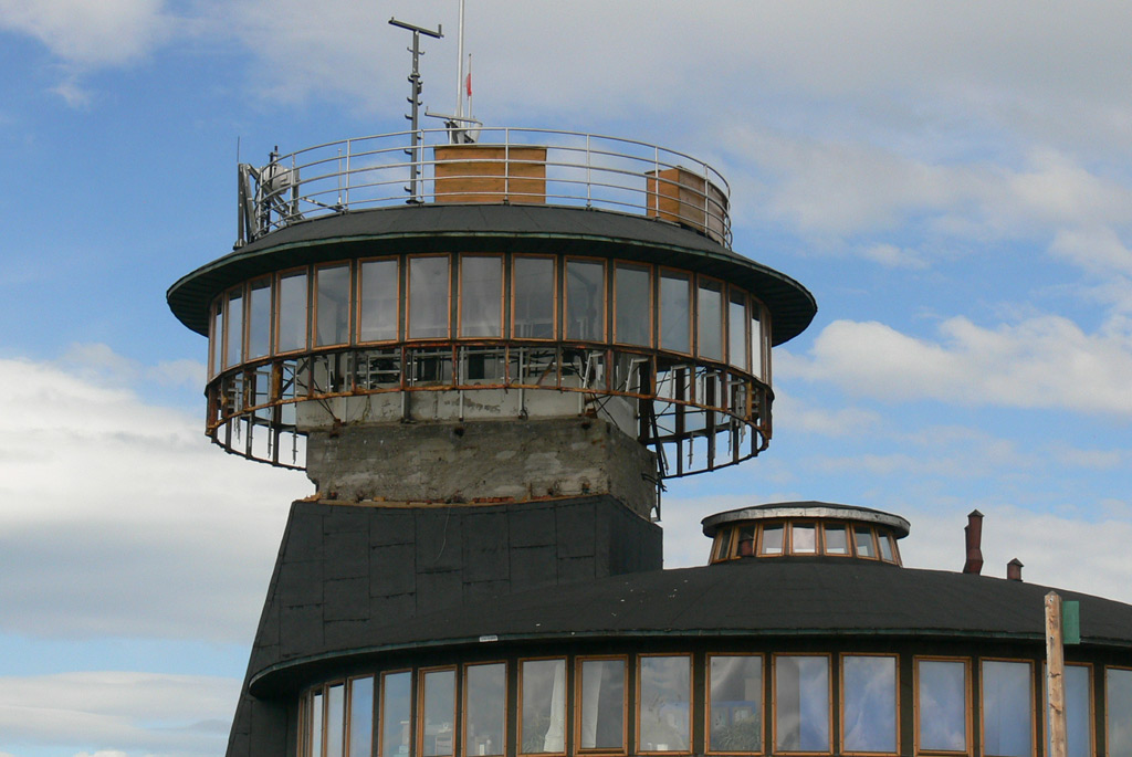 Damage taken by Observatory on Śnieżka, Poland, as a result of structural failure between 14th and 16th of march 2009. Observatory which construction was finished in 1974 had been built with materials and welding which did not meet design requirements. As a result the upper disc's floor broke, and has been dismantled.